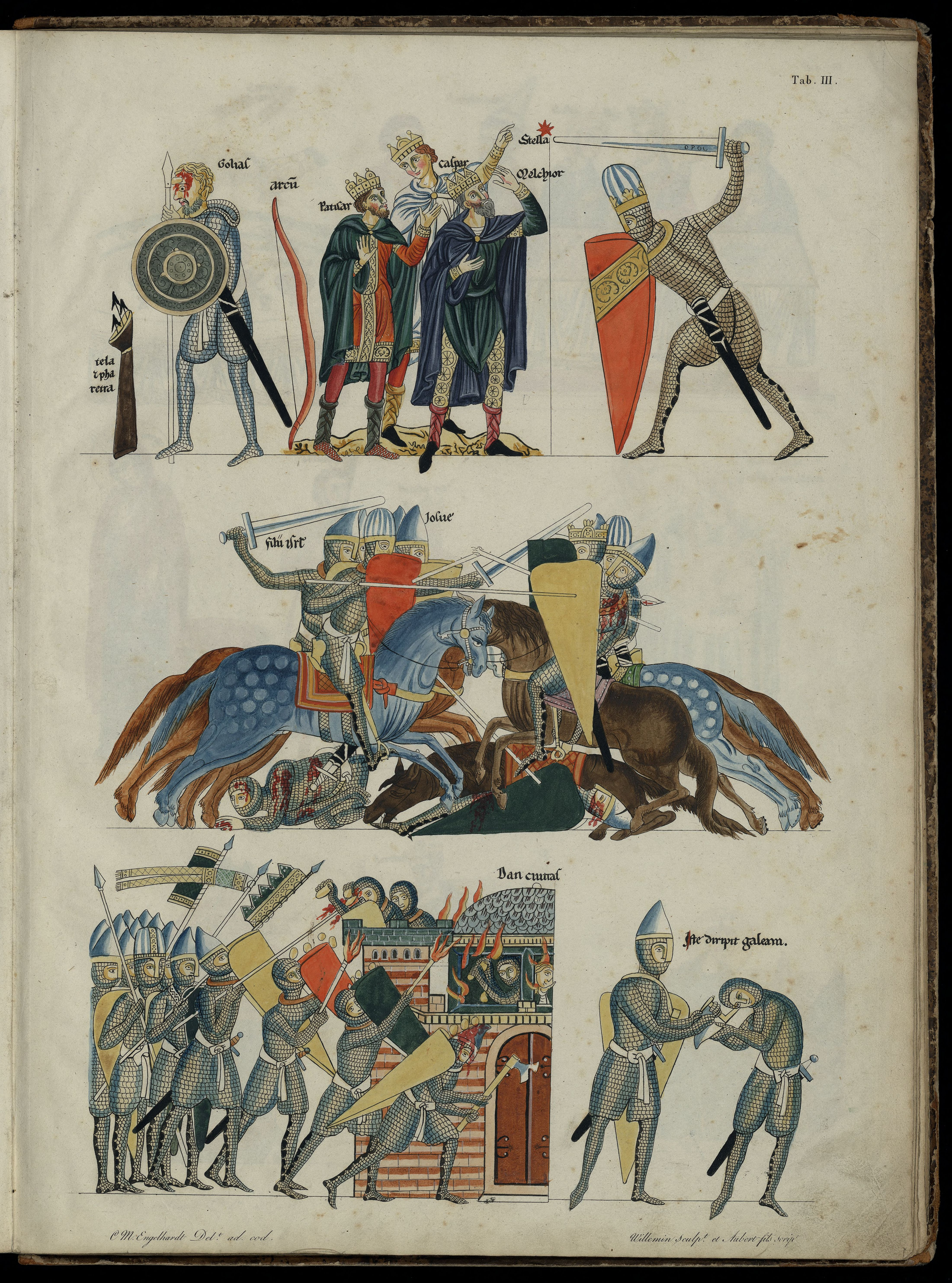 a table from Hortus Deliciarum (facsimile)